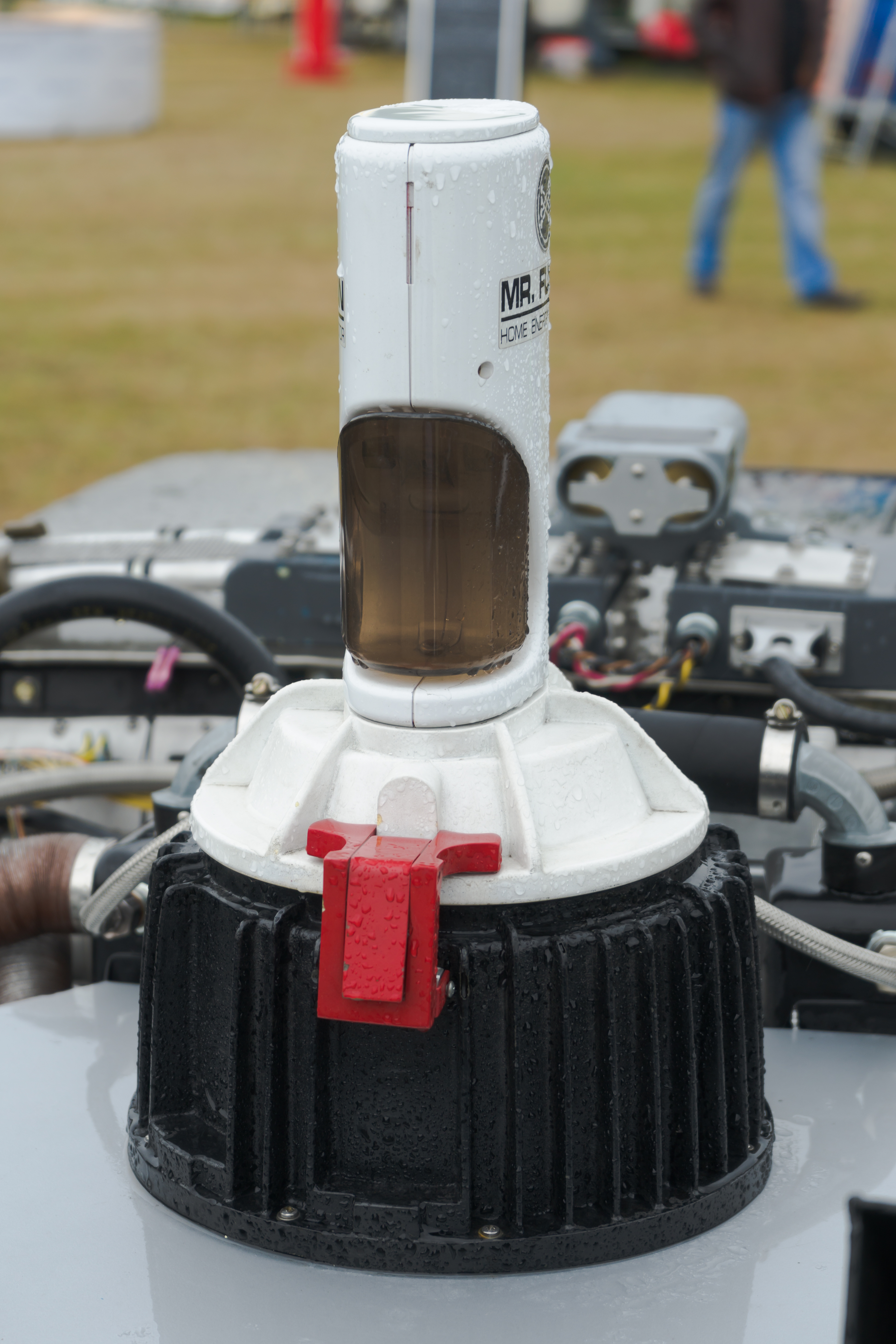 Mr. Fusion Home Energy Reactor on the De Lorean DMC-12 Back to the Future replica at the Austrian 500 US-Car Days 2015